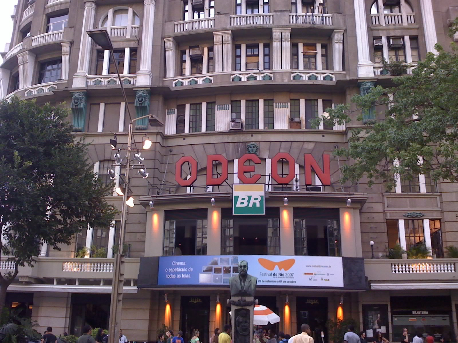 Odeon BR Theatre - Rio de Janeiro Int'l Film Festival 2007